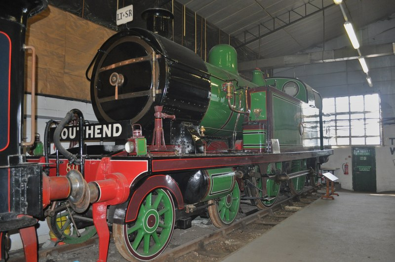 LTSR Thundersley No. 80 4-4-2T Thundersley No. 80 4-4-2T. Designed by T. Whitelegg and built by Robert Stephenson in 1909 for the London, Tilbury & Southend Railway to haul their heavier commuter passenger trains. In 1911 “Thundersley” was decorated in fine style to celebrate the coronation of King George V. It was withdrawn from traffic in 1956 and selected for preservation. It was restored in Norfolk by the celebrated Bill Harvey (Locomotive Shed Master at Norwich) assisted by members of the Norfolk Railway Society.